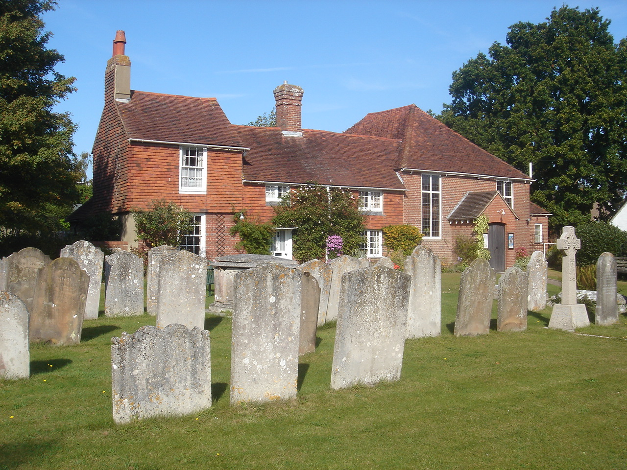 The Old Meeting House (right) and adjacent cottage (left and centre), The Twitten, Ditchling, District of Lewes, East Sussex. The meeting house, originally General Baptist and now Unitarian, was built in the 1730s as an extension to the adjacent cottage of 1672. They have been listed as a group at Grade II by English Heritage (IoE Code 292815)